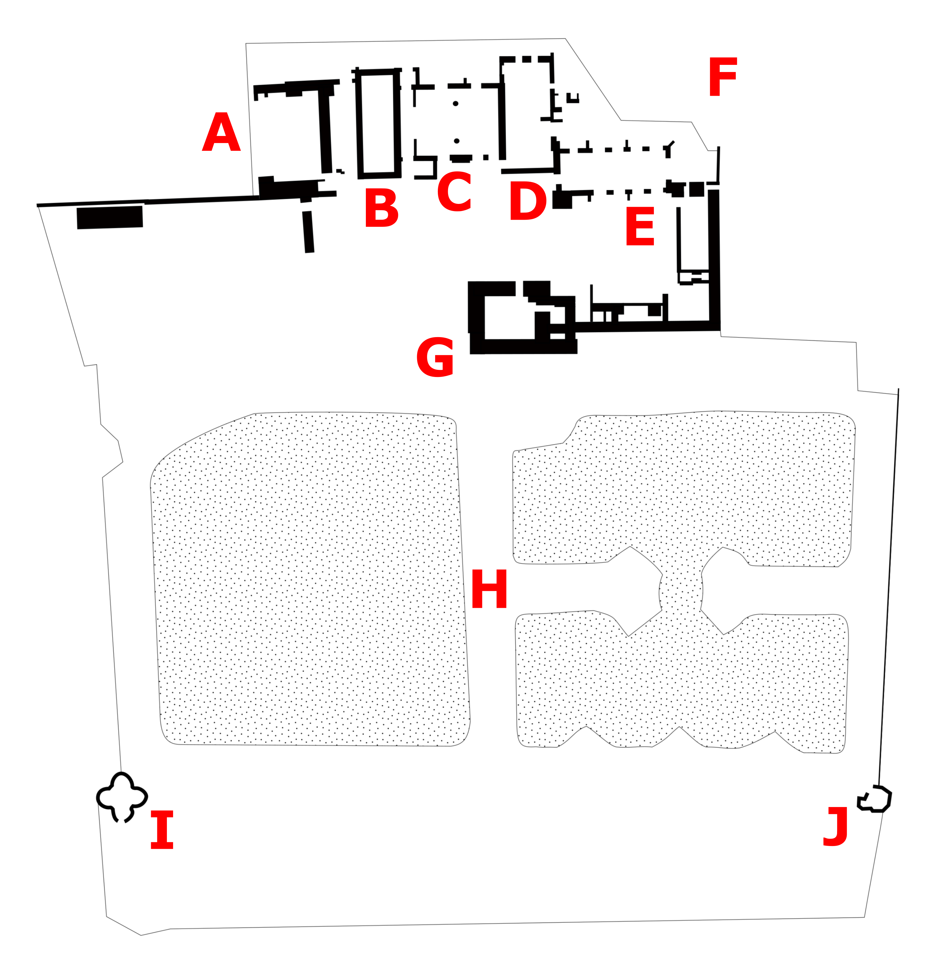 Diagram of Ashby de la Zouch Castle